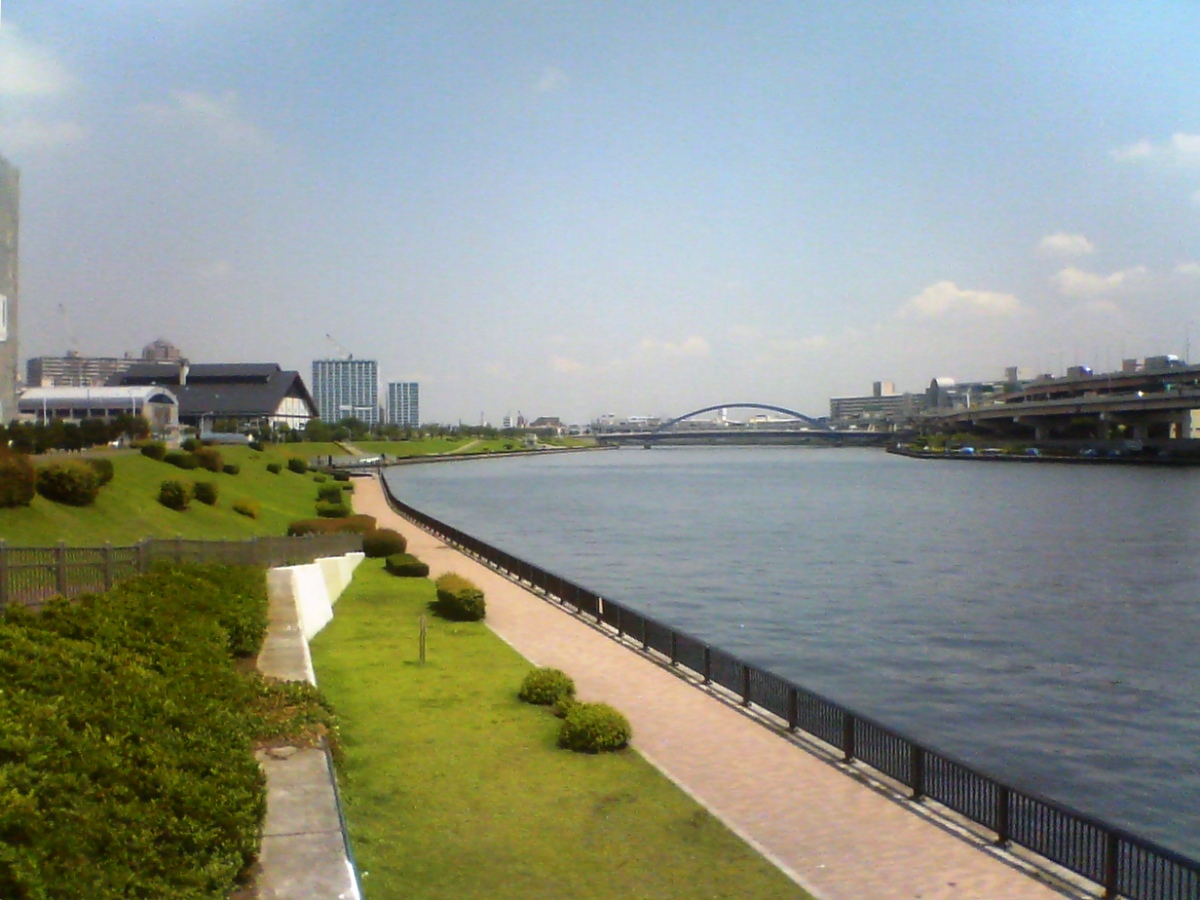 This image shows Sumida-gawa river and Sumidagawa Terrace(Shirahige west area) in Tokyo,Japan.